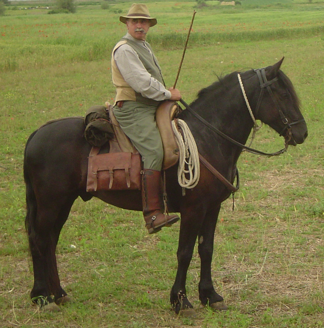 A Tolfetano horse carrying his breeder, photographed near Rivodutri (RI) during the annual transhumance of Manlio Fani's breeding herd of Cavallo Romano della Maremma Laziale horses from Ponzano Romano (RM) to the high mountain summer pastures; the saddle is a scafarda, a type not often used by the Butteri of Tolfa